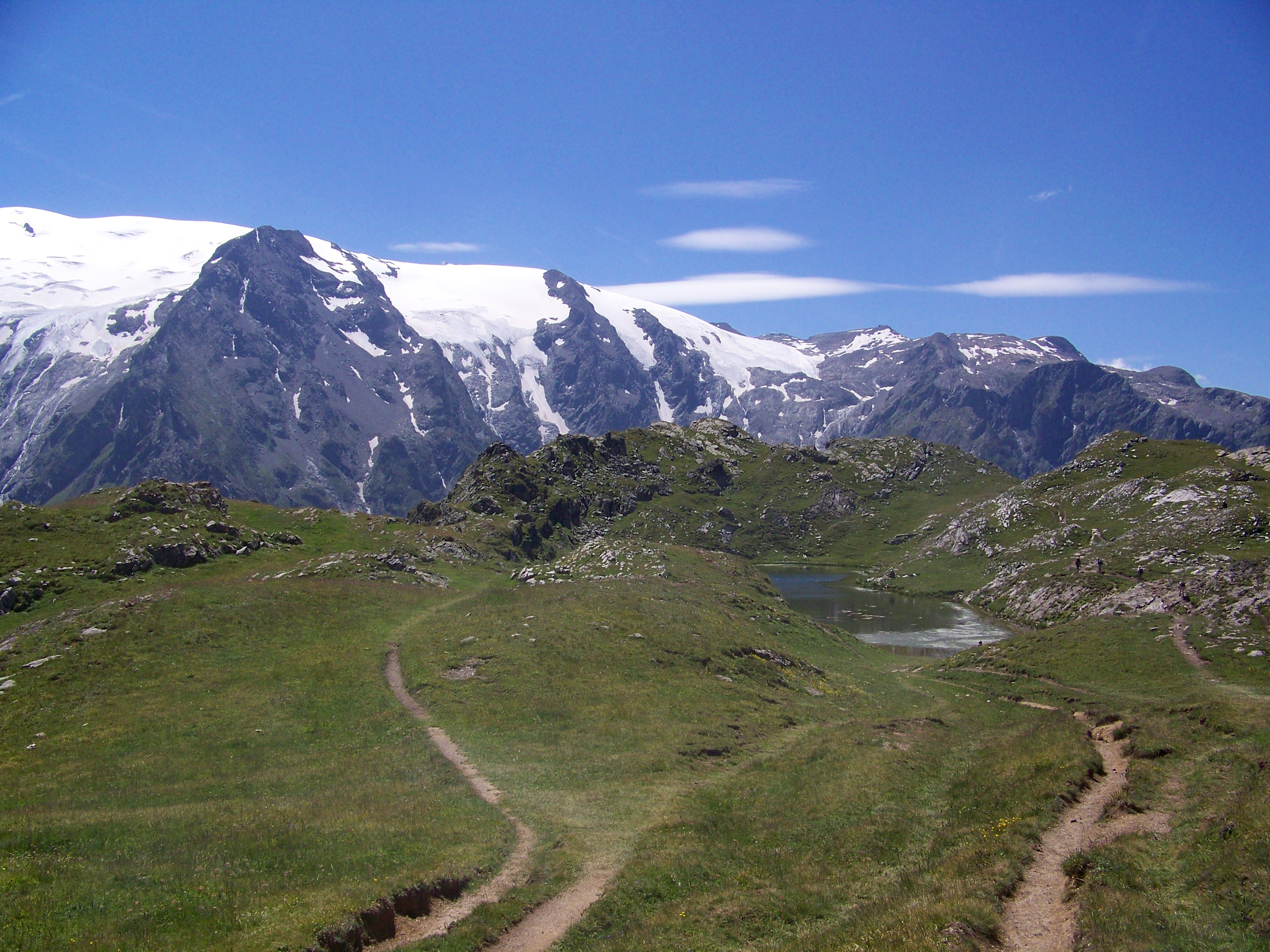 The Lac Lérié on the Emparis Plateau, in the French Alps. In the background, the Girose glacier (left) and the Mont de Lans glacier (center).